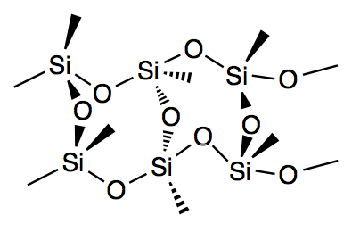 Silsesquioxane Ladder